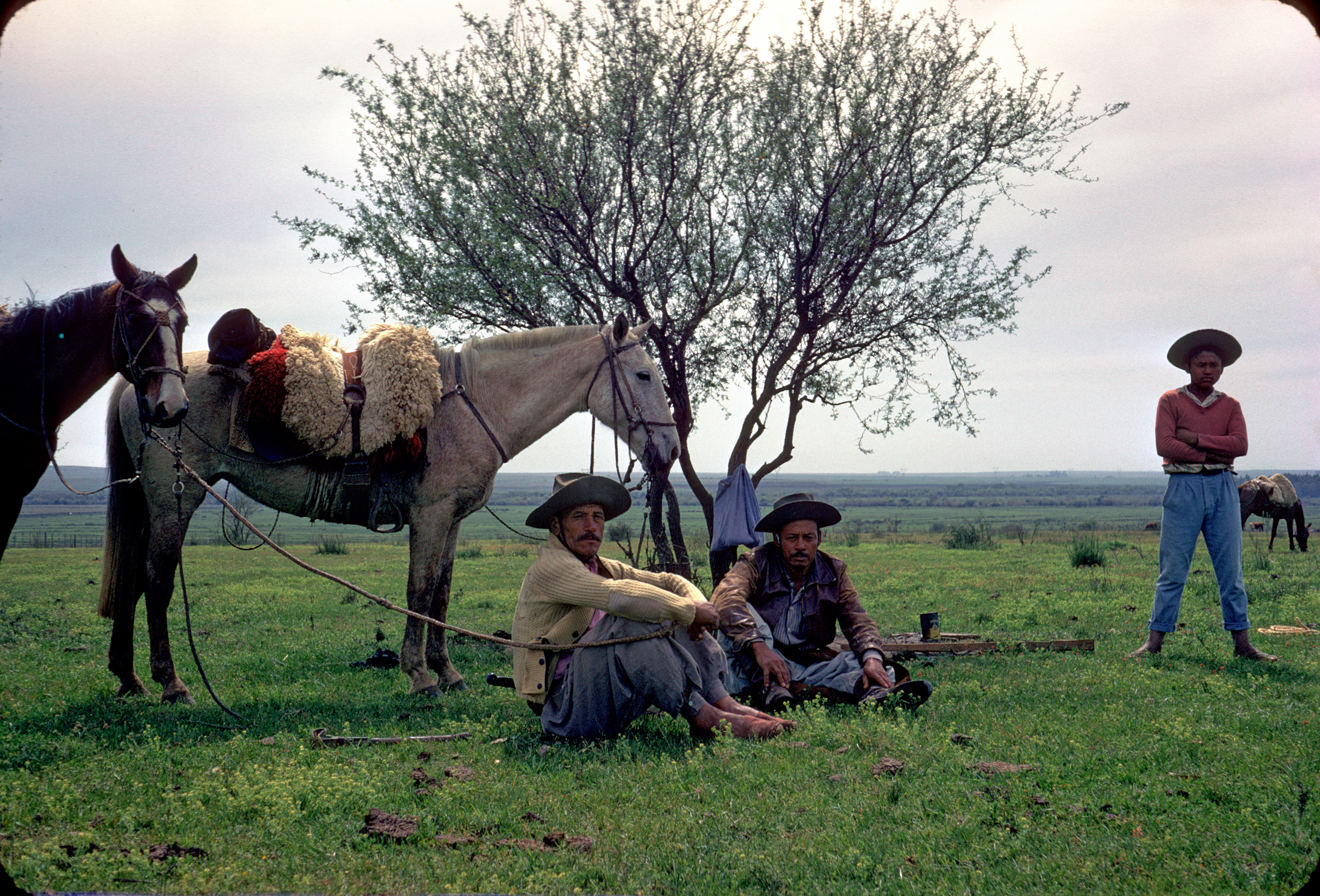 Gauchos and horses at a cattle show outside Alegrete, Rio Grande do Sul, Brazil in 1969.